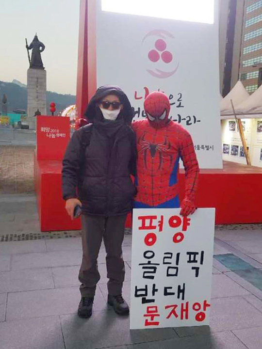 Protesters criticizing South Korean President Moon Jae-in’s pro-North Korean measures for the 2018 Winter Olympics, calling it the “Pyongyang Olympics,” instead of the “Pyeongchang Olympics”